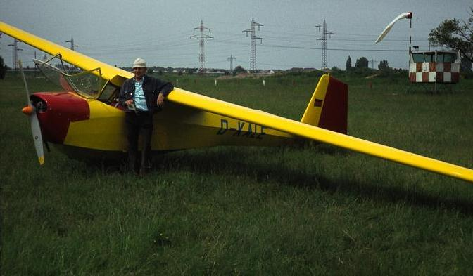 Scheibe SF25 Motorglider Germany